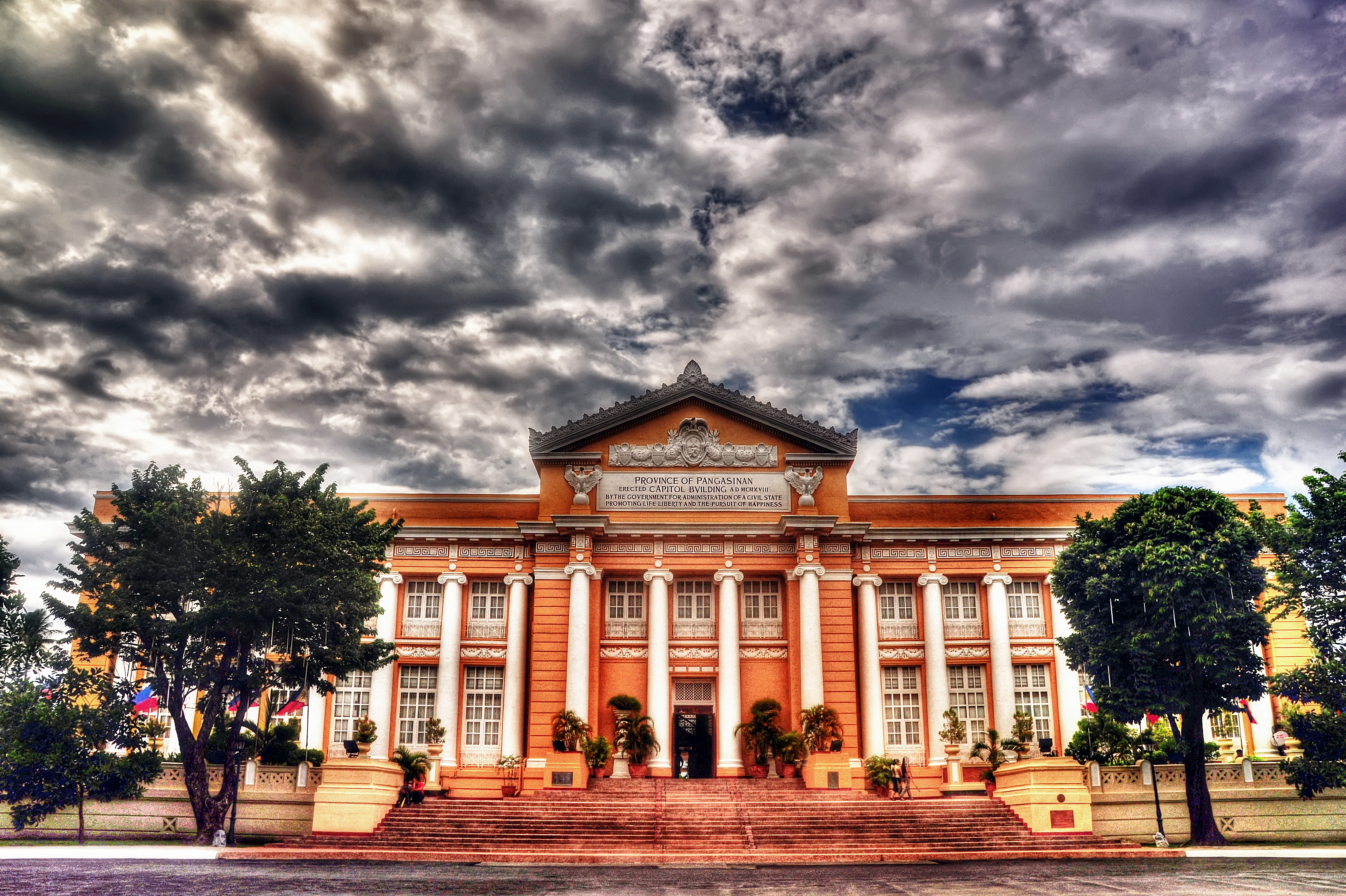 This is Provincial Capitol of Pangasinan located in town Lingayen. Edited and enhanced using HDR.